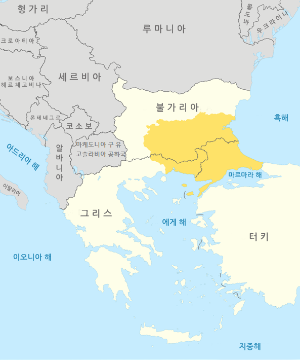 Thrace and present-day state borderlines